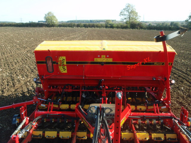 Drilling Wheat. A view from the tractor seat, looking back at a Väderstad Rapid 300 Super XL (with go faster stripes). This is the bees knees when it comes to seed drill technology, accurate seed placement and high forward speed are two of this machines selling points. – It is around 294 years since Jethro Tull perfected his invention of a seed drill and the fundamentals are still used today, precision metering of seed and a harrow to cover the seed. 1010117 reveals the view ahead.